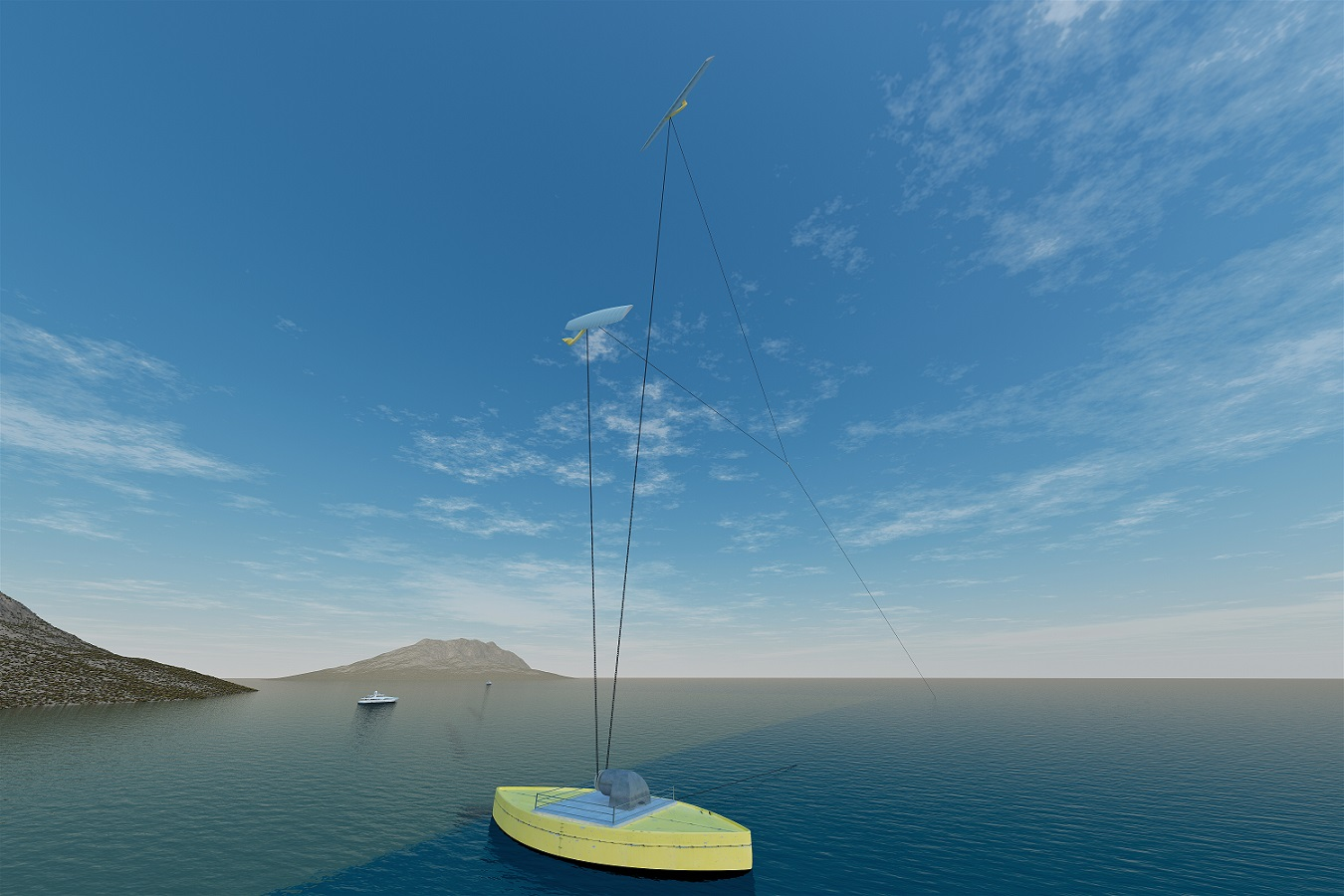 Airborne wind energy conversion system using crosswind kite power with fast motion transfer is one means to produce electricity. This is an artist's impression of an offshore system with two counterbalancing wings.